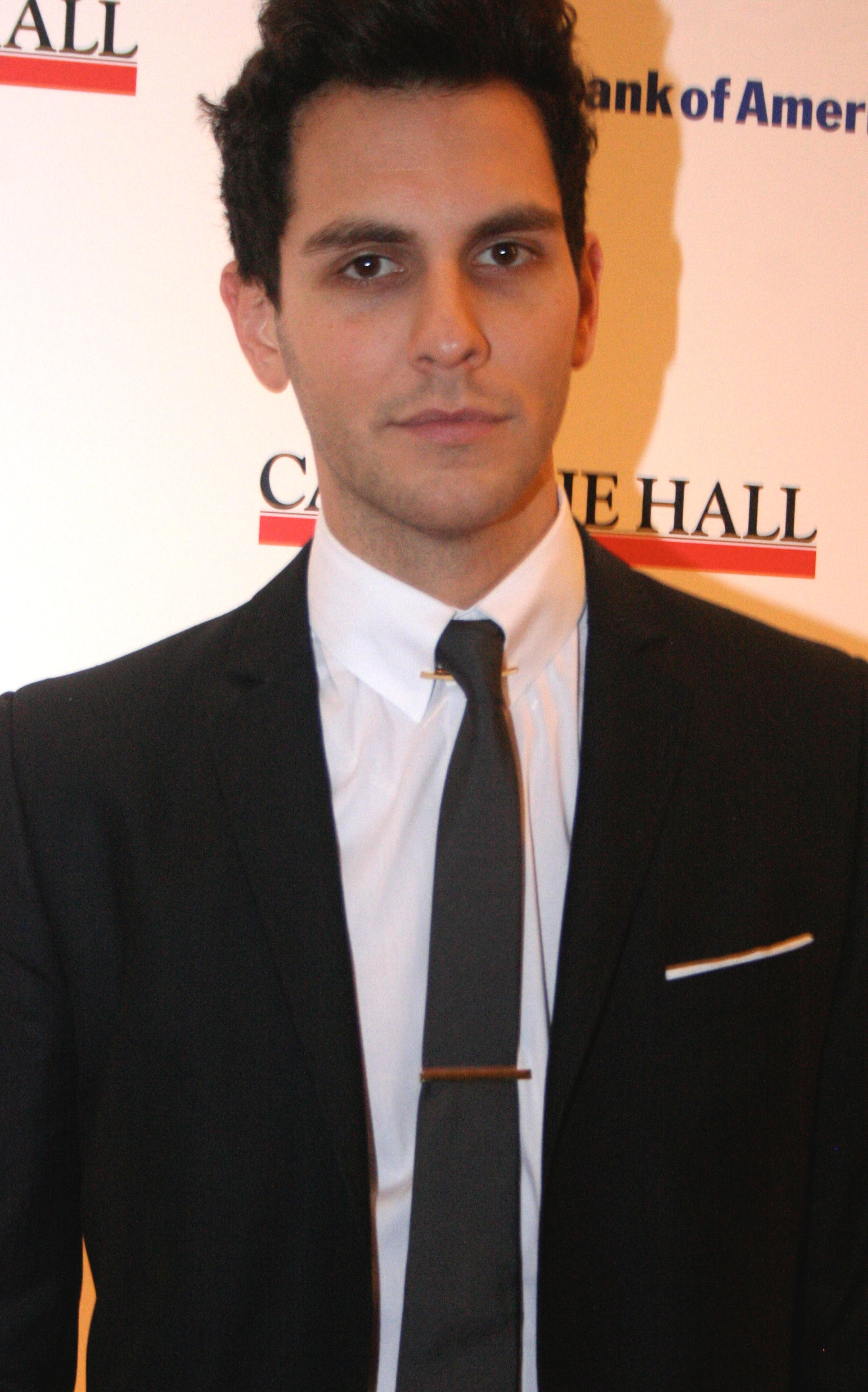 Gabe Saporta at the 120th Anniversary of Carnegie Hall in MOMA, New York City in April 2011.